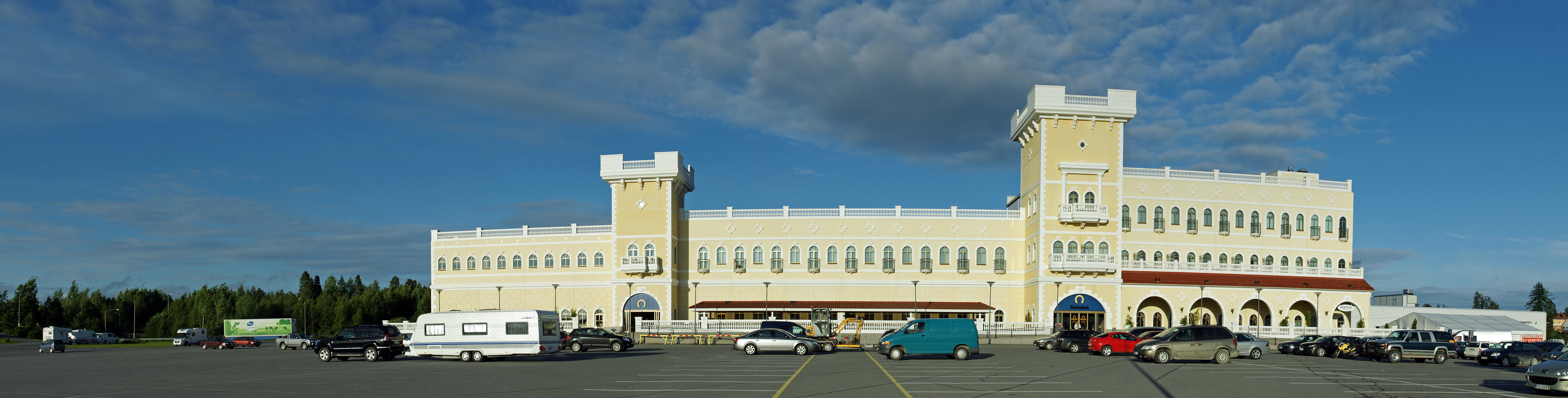 Panorama of Veljekset Keskinen department store situated in Tuuri, Töysä, Finland.